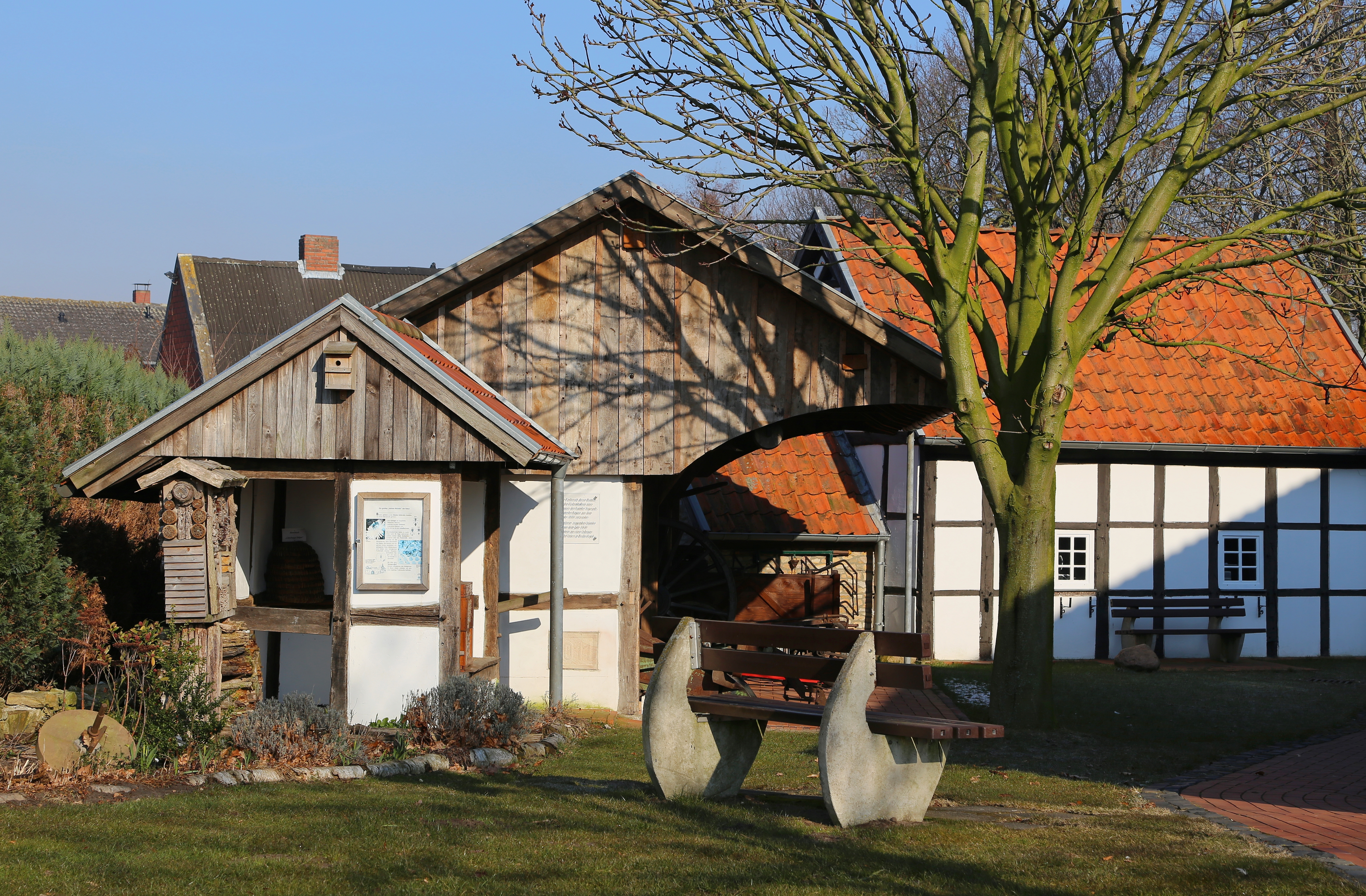 Some of the buildings surrounding the Alte Ruthemühle, a former water mill and now a museum in Recke, Kreis Steinfurt, North Rhine-Westphalia, Germany.